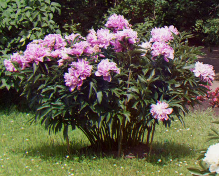 Peonies, detail.